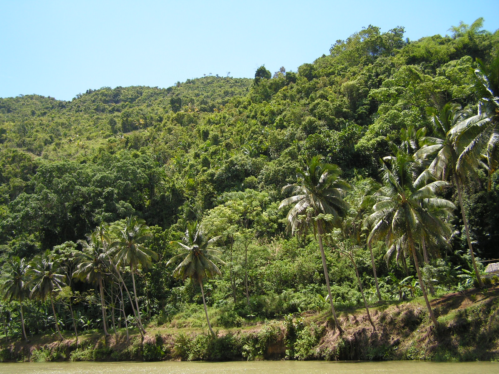 flush vegetation in Loboc, Bohol taken while on a river cruise upstream